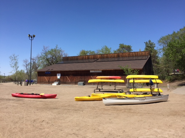 The Wascana Marina, Regina, Saskatchewan